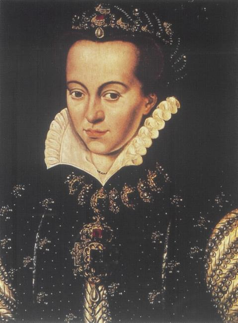 This image is available from the Netherlands Institute for Art Historyunder digital ID 162713. This tag does not indicate the copyright status of the attached work. A normal copyright tag is still required. See Commons:Licensing.